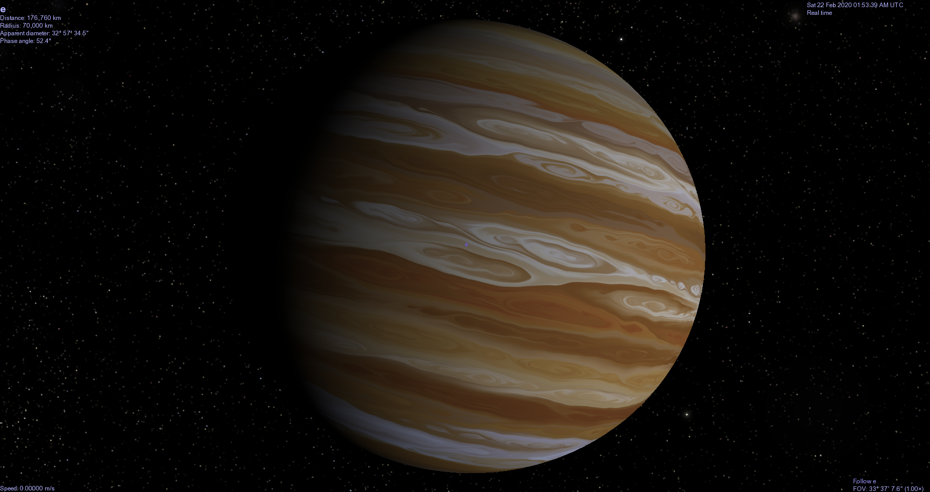 Exo-planet Ups And E